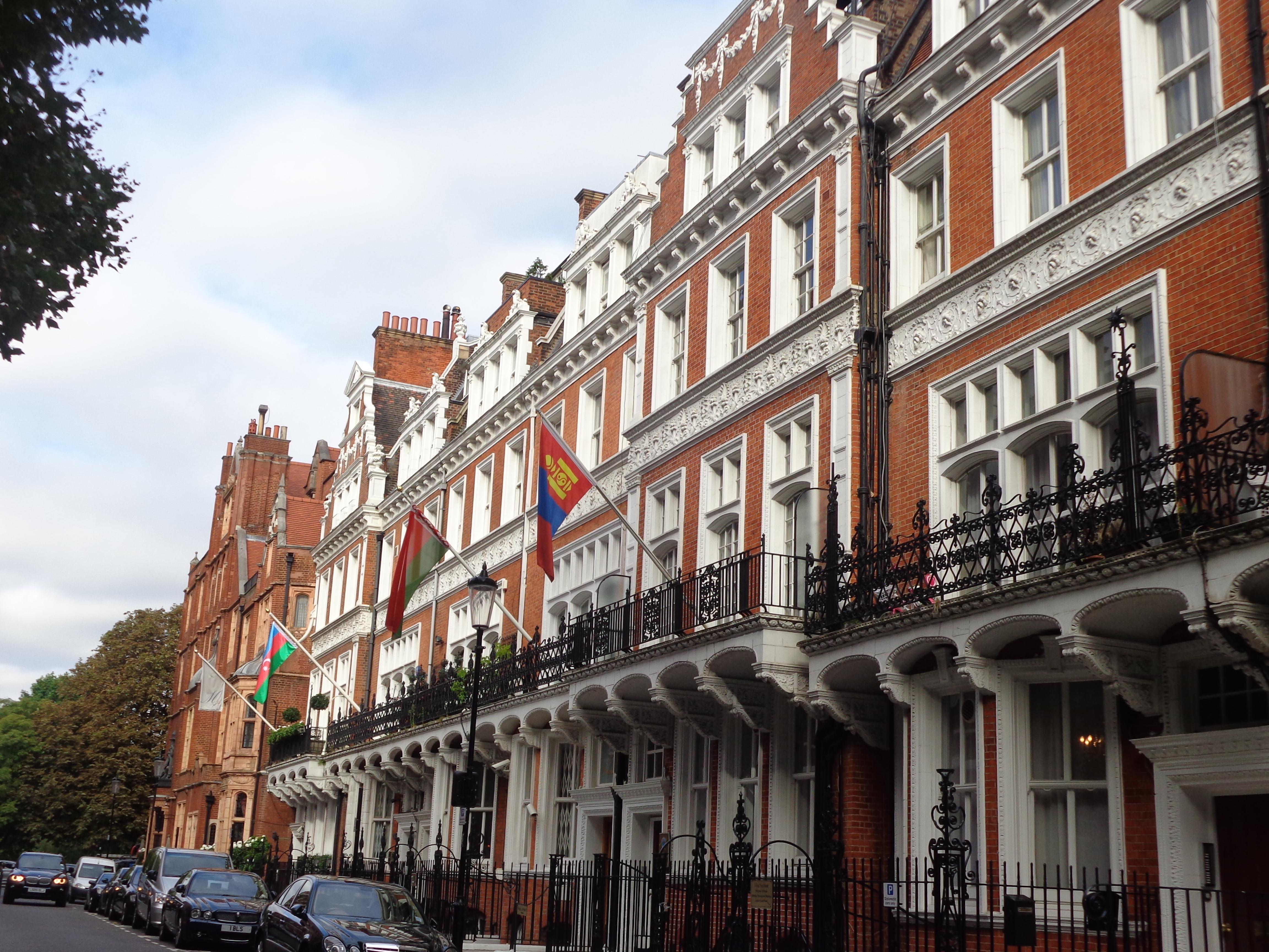 Embassies of Mongolia, Belarus and Azerbaijan, Kensington Court, Royal Borough of Kensington and Chelsea, London. Taken on the afternoon of Thursday the 25th of September 2014.